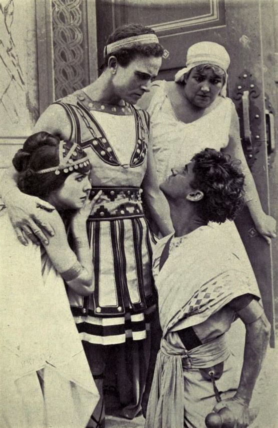 Still from the American film Damon and Pythias (1914) with Ann Little, Herbert Rawlinson, Duke Worne, and an unidentified actress, facing page 216 of the 1915 novel. Caption: "My master is condemned to death."